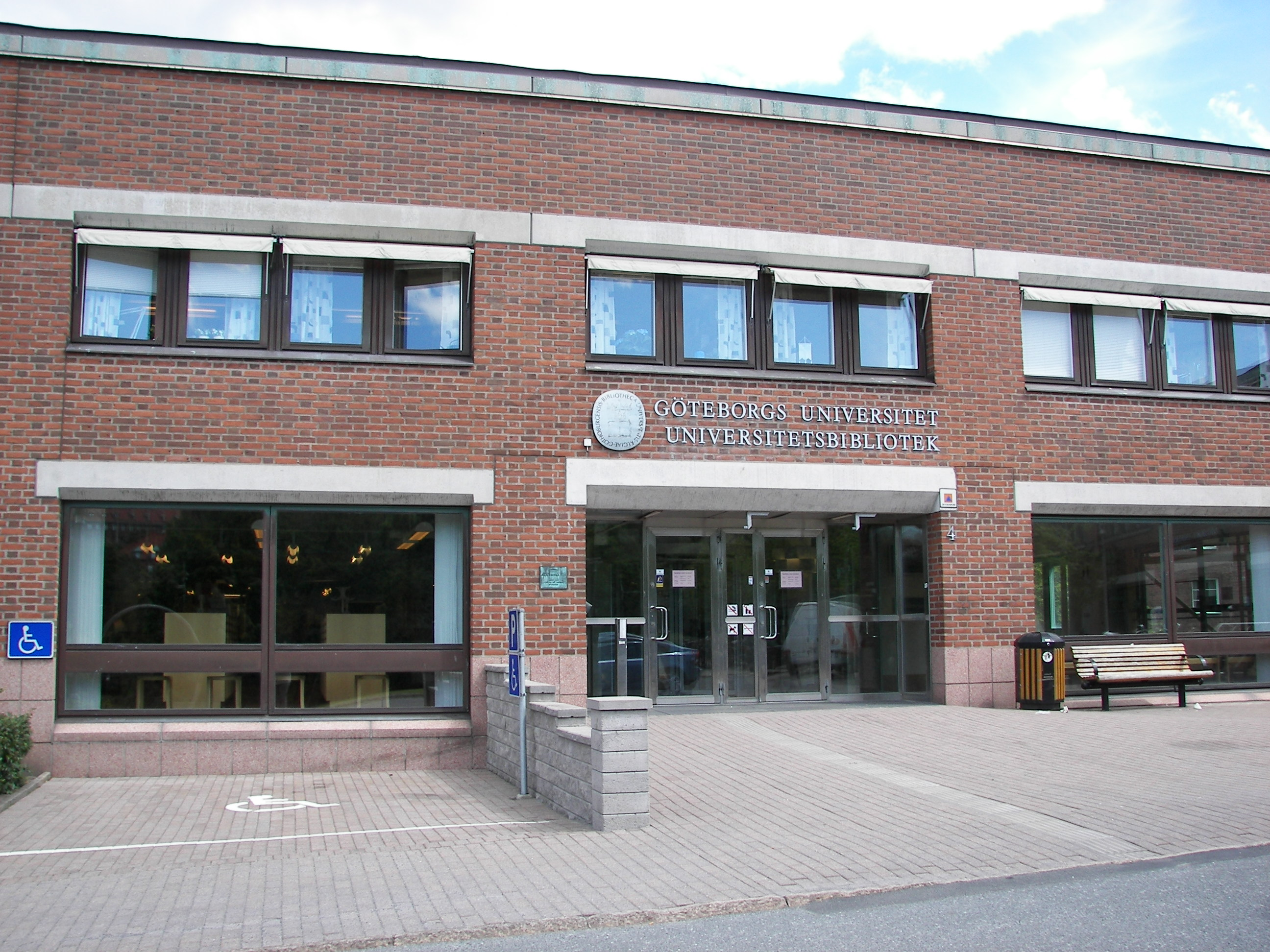 Göteborg University library